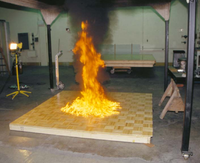 Gasoline spill fire under the furniture calorimetry hood in the large Fire Research Facility at NIST